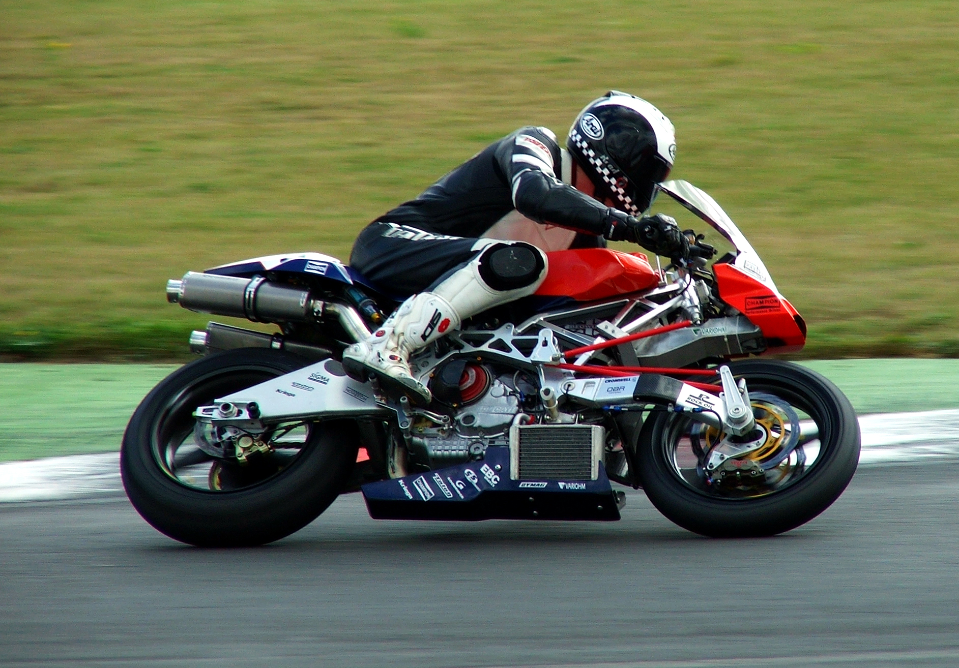 Phil Read on his %u201CVyrus%u201D. Ducati powered. Team Alto Performance